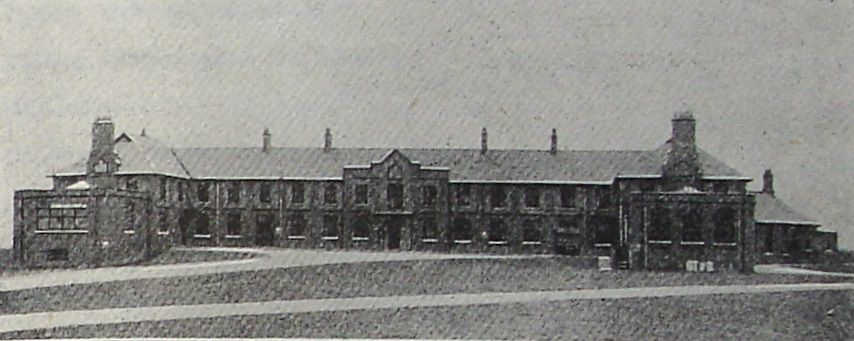 Early image of Castleford, Normanton and District Hospital (hospital has since been demolished so no recent photograph is possible)